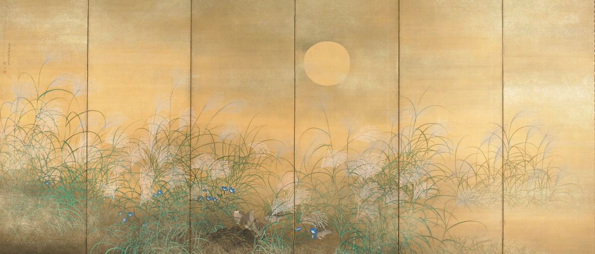 Some of the panels of a silk painting depicting quail feeding by moonlight amidst kikyō (Chinese bellflowers) and susuki (pampas grass).